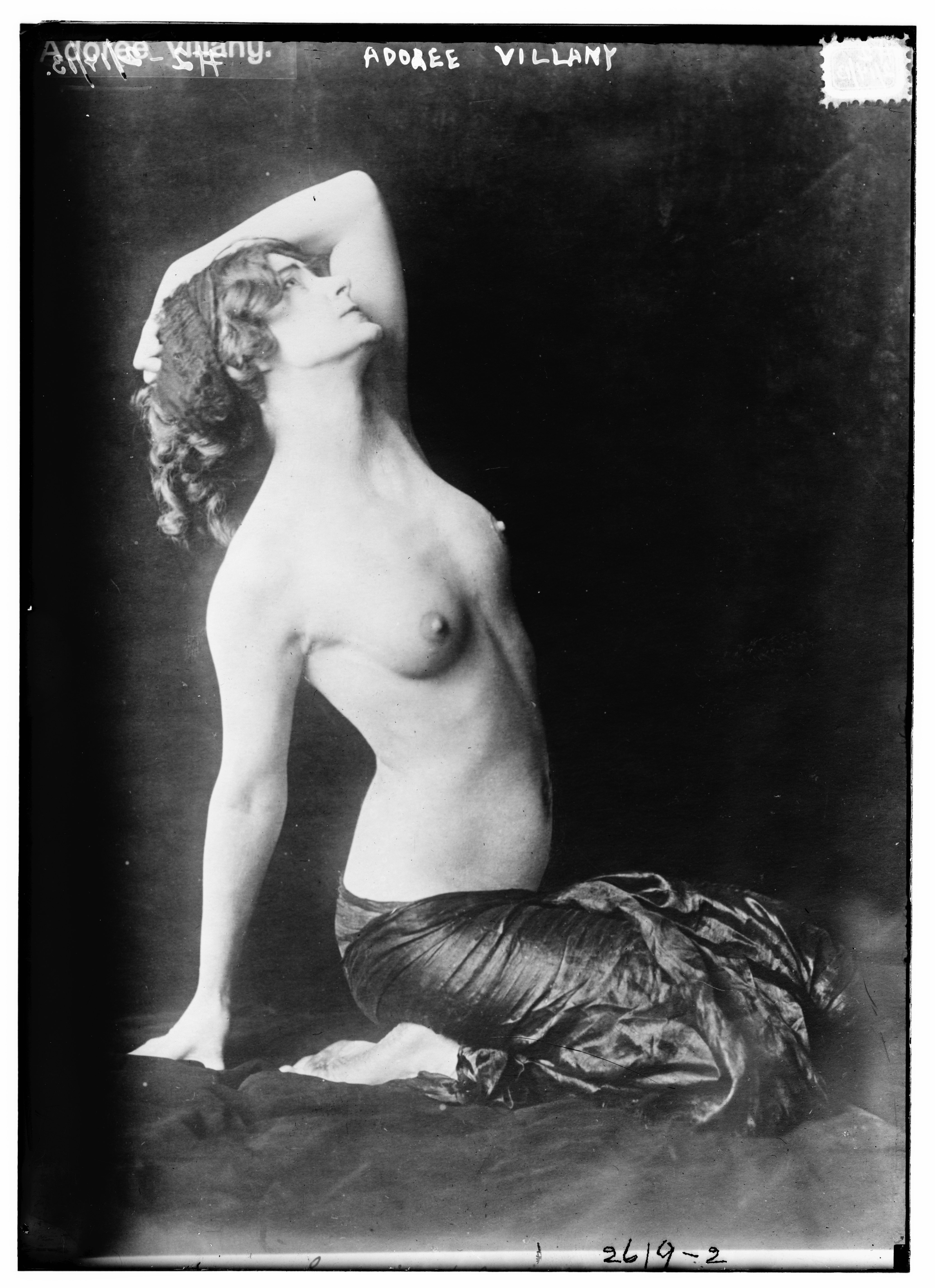 Title: Adoree Villany Abstract/medium: 1 negative : glass ; 5 x 7 in. or smaller.